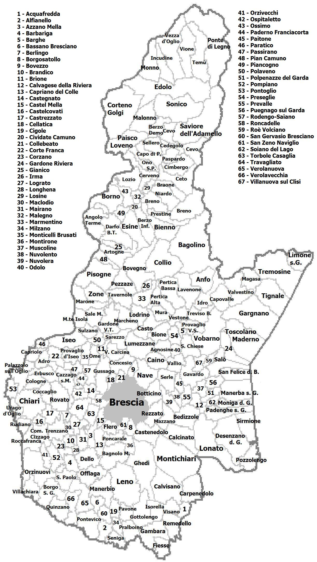 Province of Brescia map with municipalities' borders.